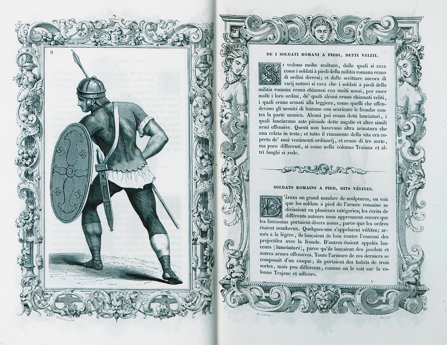 Cesare Vecellio. Costumes anciens et modernes Habiti antichi et moderni di tutto il Mondo di Cesare Vecellio, Paris, Firmin Didot Frères Fils & Cie, M.DCCC.LIX (1859-60)